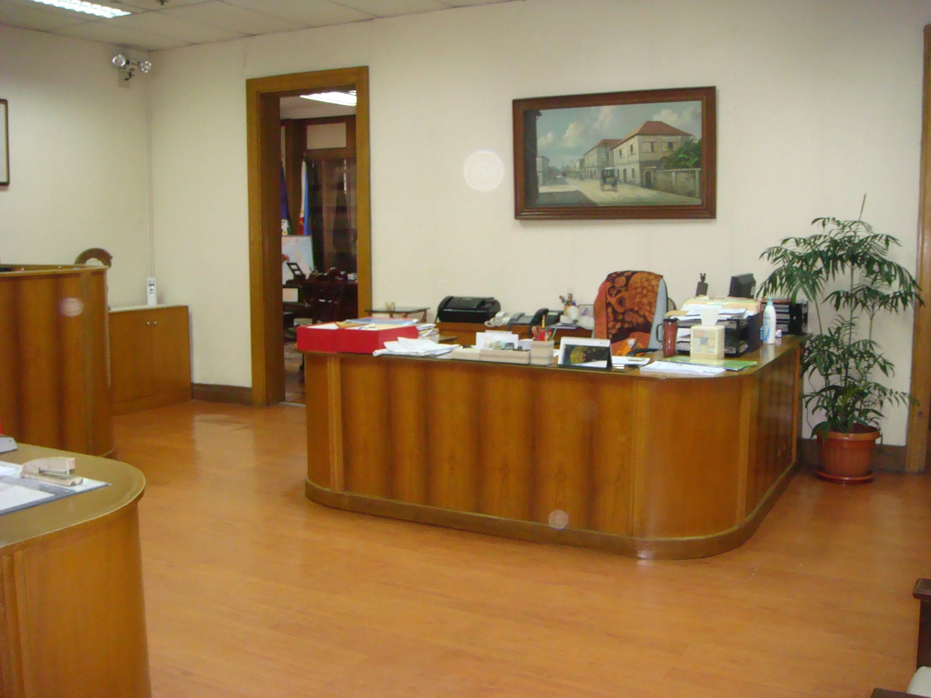 SC Chambers (law) of Antonio T. Carpio, Associate Justice of the Supreme Court of the Philippines[1]